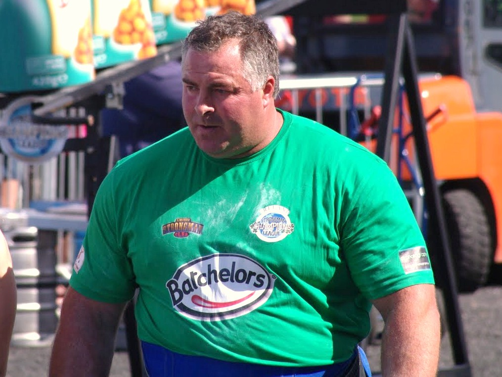 Mark Westaby - a strength athlete from England.